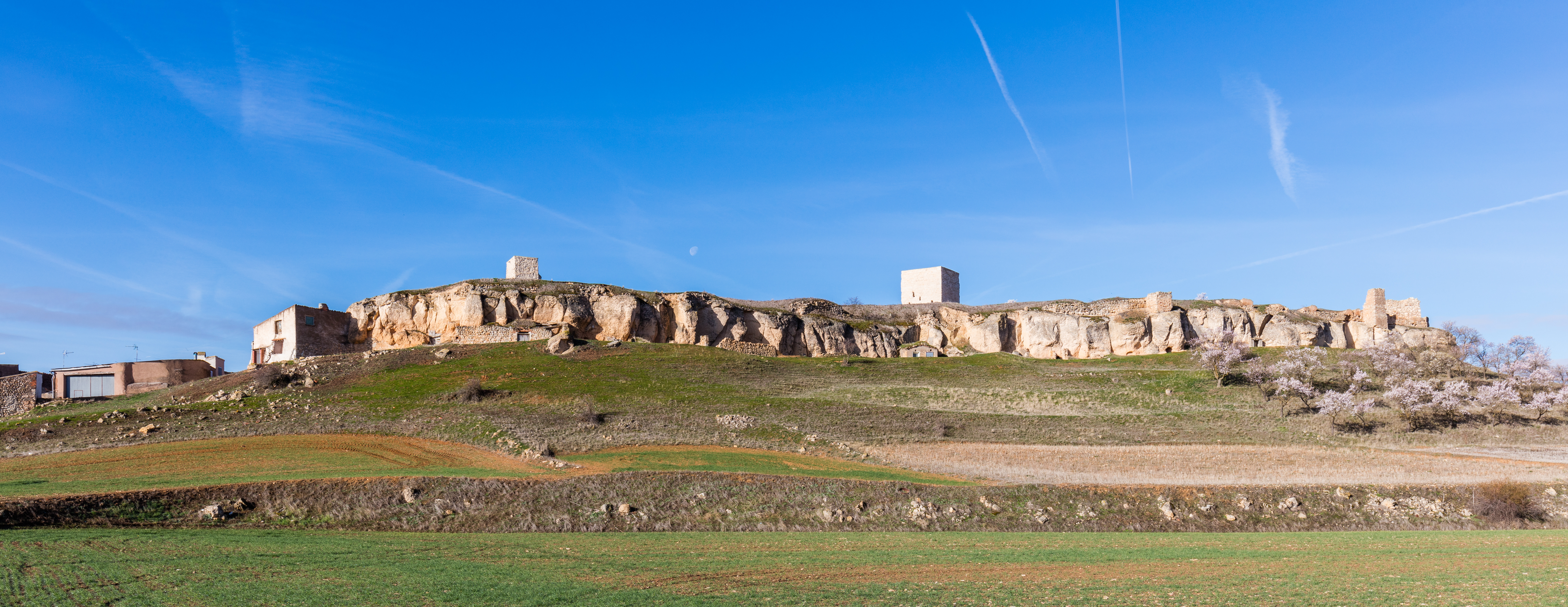 Langa del Castillo, Zaragoza, Spain